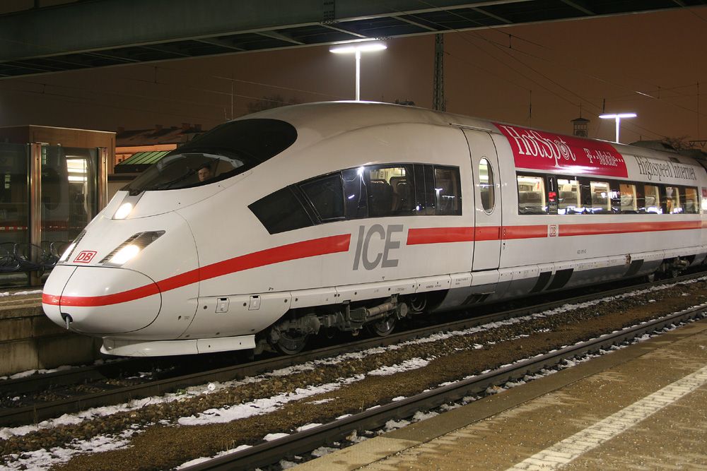 An ICE 3 high-speed train with Hotspot advertisements at the main railway station of Ingolstadt